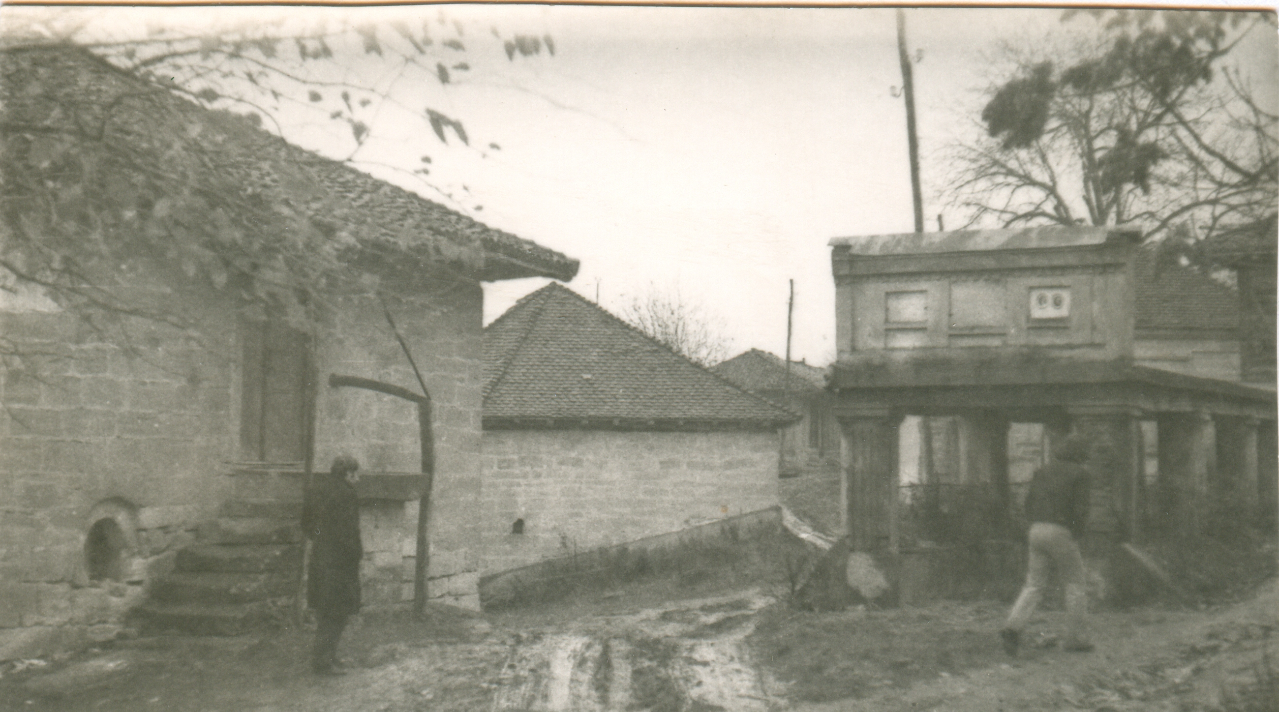 Rogljevacke pivnice, settlements consisting of wine cellars near Negotin Srpski (latinica): Rogljevačke pivnice, naselje vinskih podruma od kamena u opštini Negotin